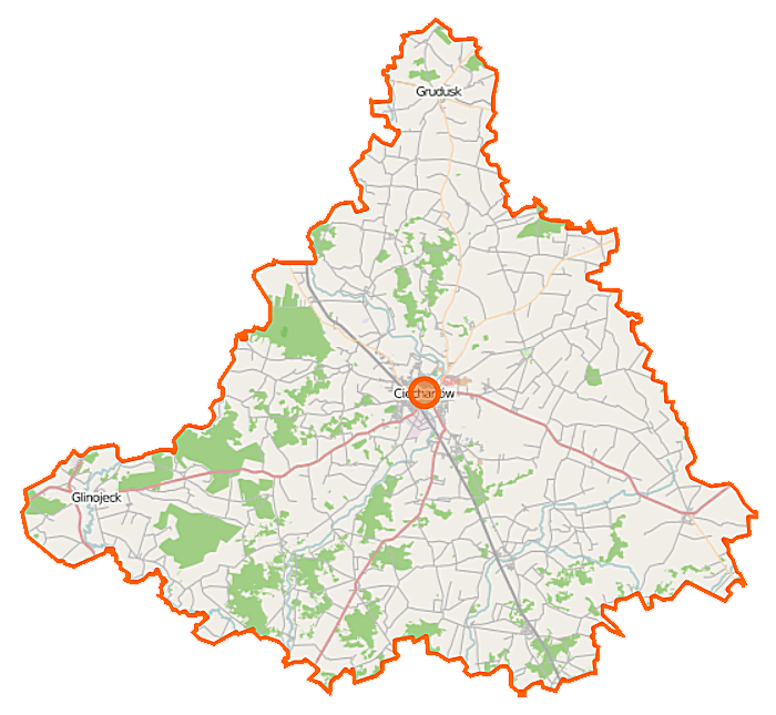 Map of Powiat ciechanowski, Poland This map of Powiat ciechanowski was created from OpenStreetMap project data, collected by the community. This map may be incomplete, and may contain errors. Don't rely solely on it for navigation. Border coordinates53.116320.1901←↕→20.960552.6889